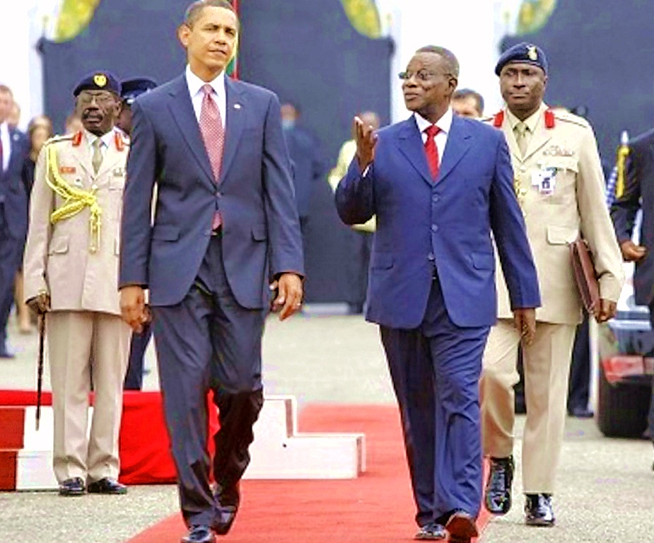 The US President, Barack Obama, and the President of Ghana, John Atta-Mills, in Accra (Ghana) on 31 July 2012